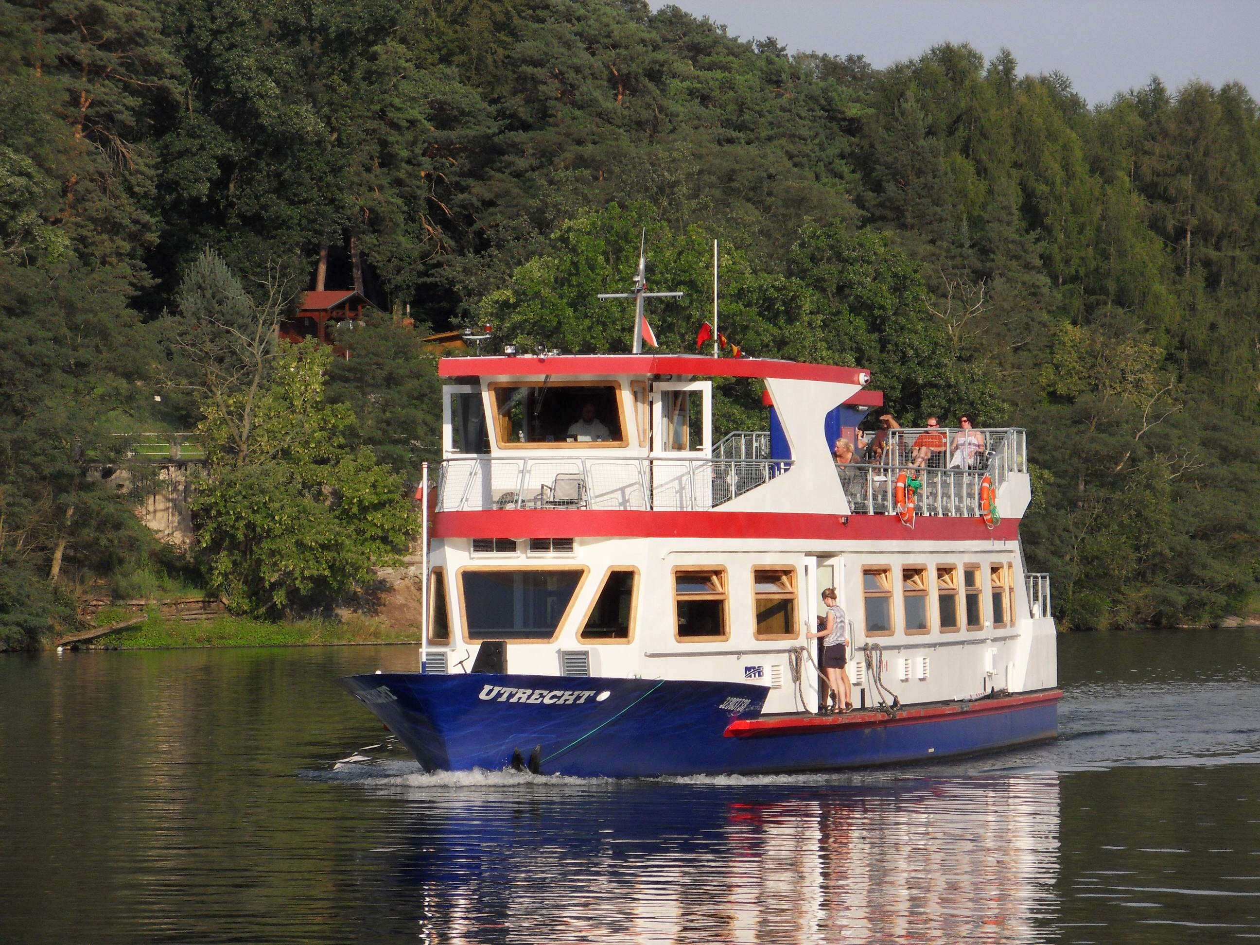 Utrecht ship at Brno Reservoir, Brno, Czech Republic